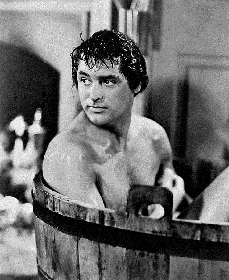 Still with Cary Grant from the American film The Howards of Virginia (1940).